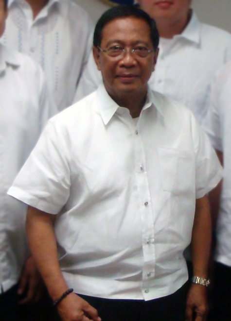 Photo of Philippine Vice-President Jejomar Binay, at a meeting with municipal mayors.